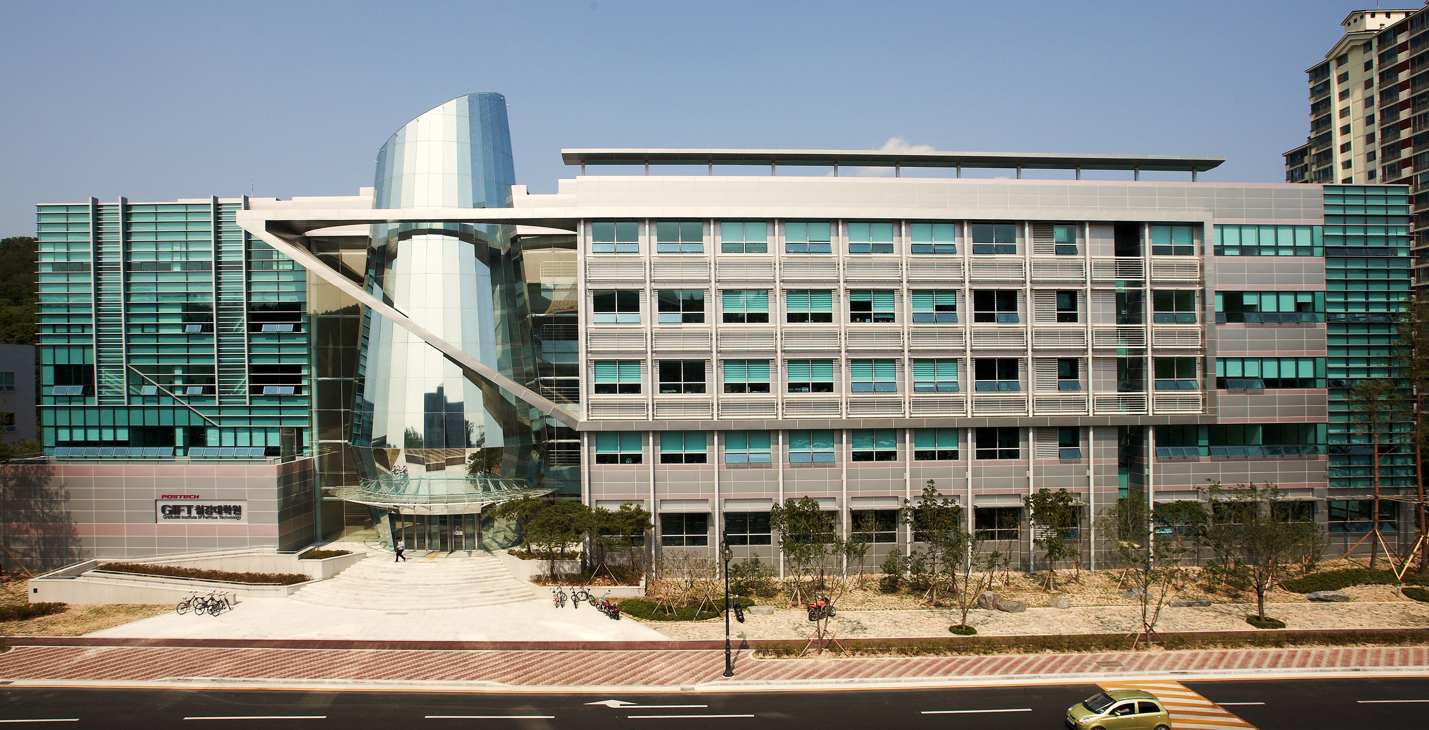 The newly completed main building of Graduate Institute of Ferrous Technology.